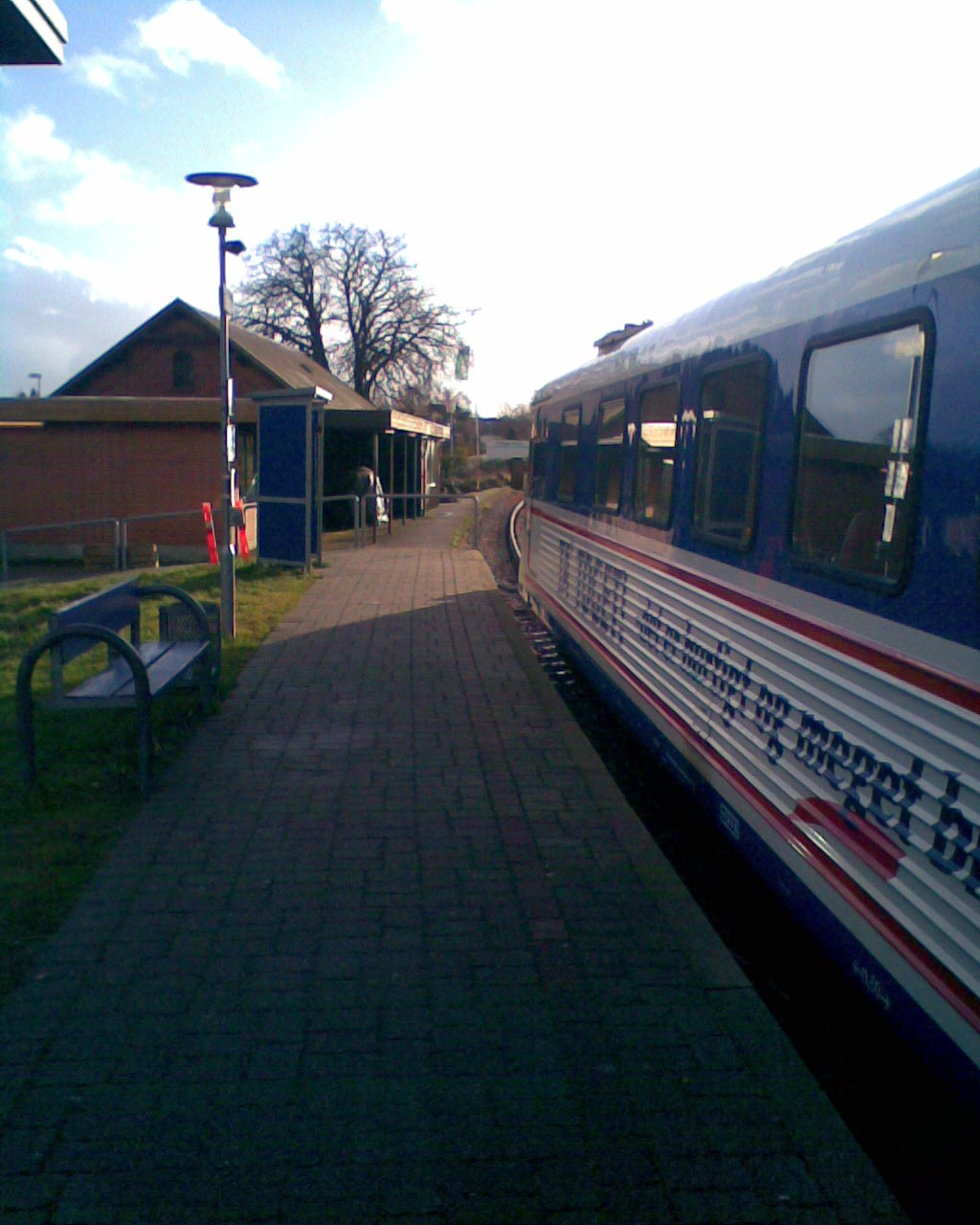 Beder Station, Denmark